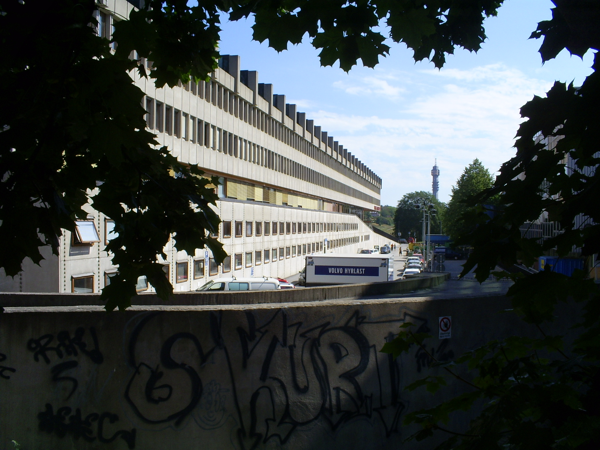 The 140 meters long studio and office building of the Swedish Film Institute in Östermalm, Stockholm, Sweden